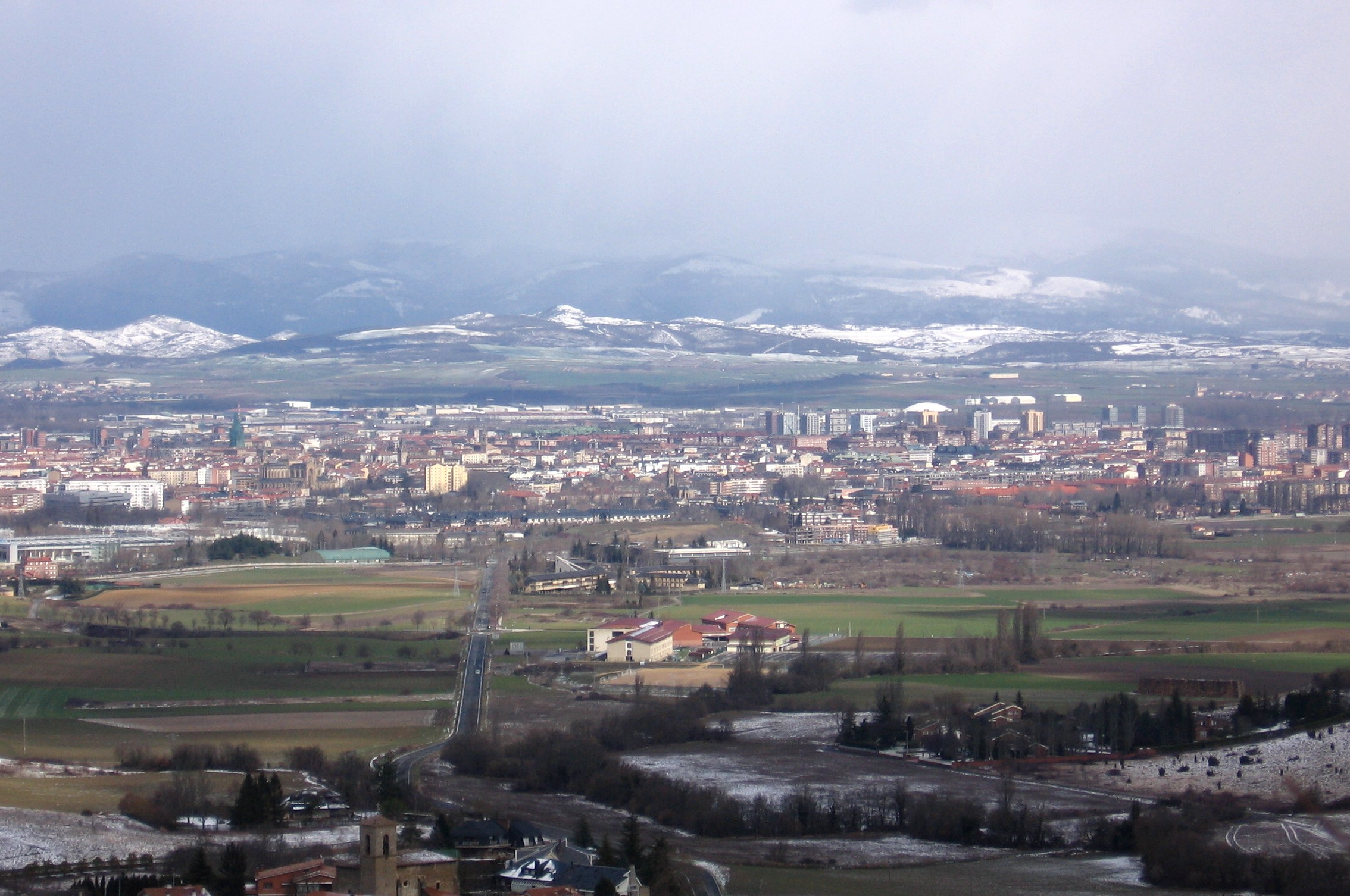 View on Vitoria, Spain